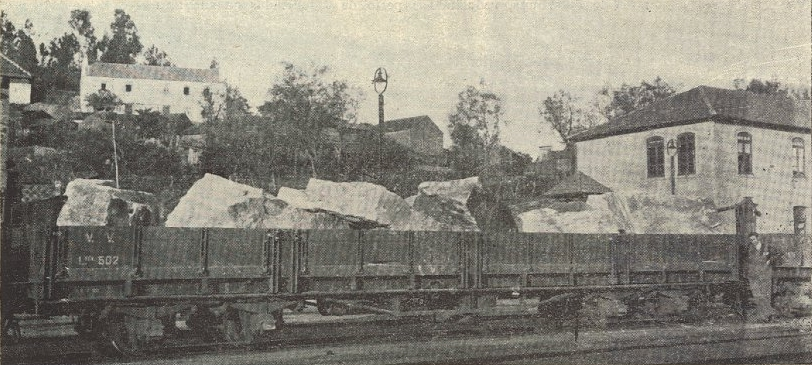 30 tonnes wagon at the Sernada do Vouga train station, on the Vouga Railway, in Portugal. Originally part of the Lena mining railway, was rebuilt and transformed on the Sernada do Vouga depot. This image was published on the Gazeta dos Caminhos de Ferro magazine no. 1363, of the 1st October 1944, and scanned by the Hemeroteca Municipal de Lisboa.